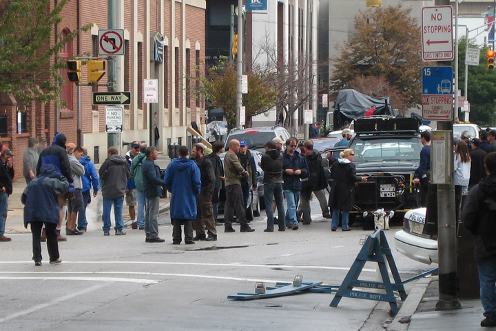 Bruce Willis, Justin Long, and Director Len Wiseman speaking about a scene while filming Live Free or Die Hard in front of Baltimore City Hall